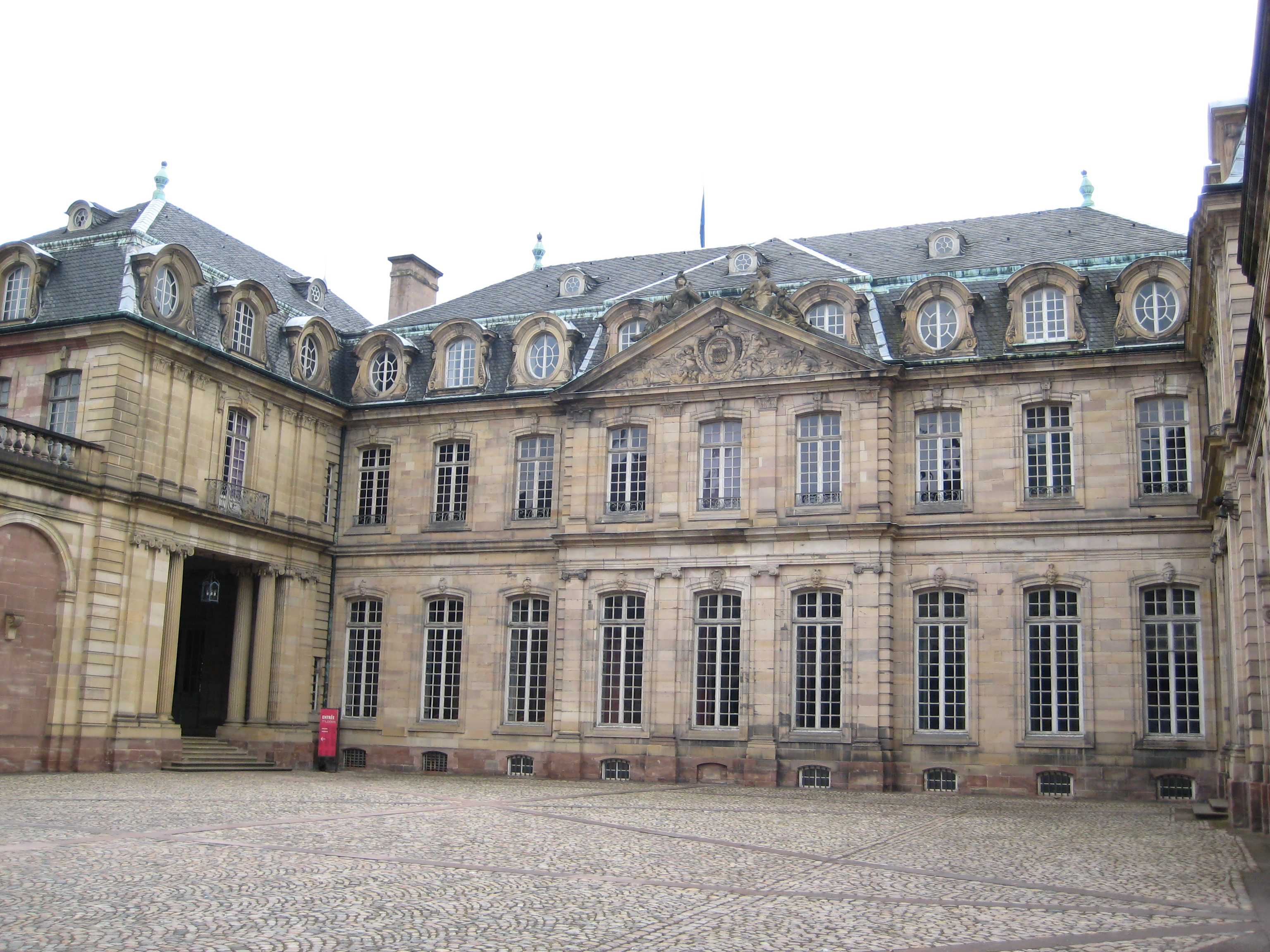 Inner Court of Palais Rohan in Strasbourg France